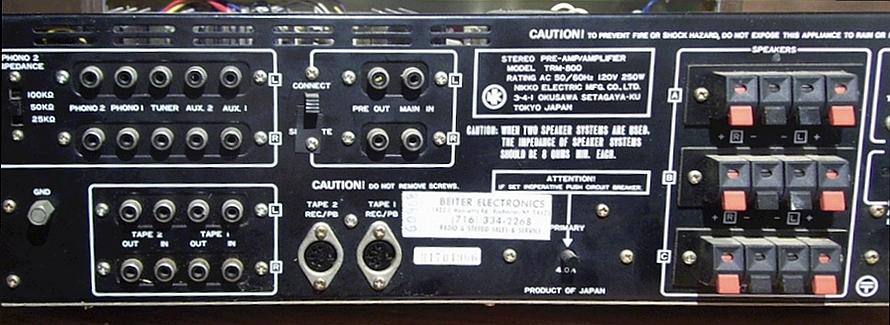 Nikko TRM-800 Stereo amplifier rear